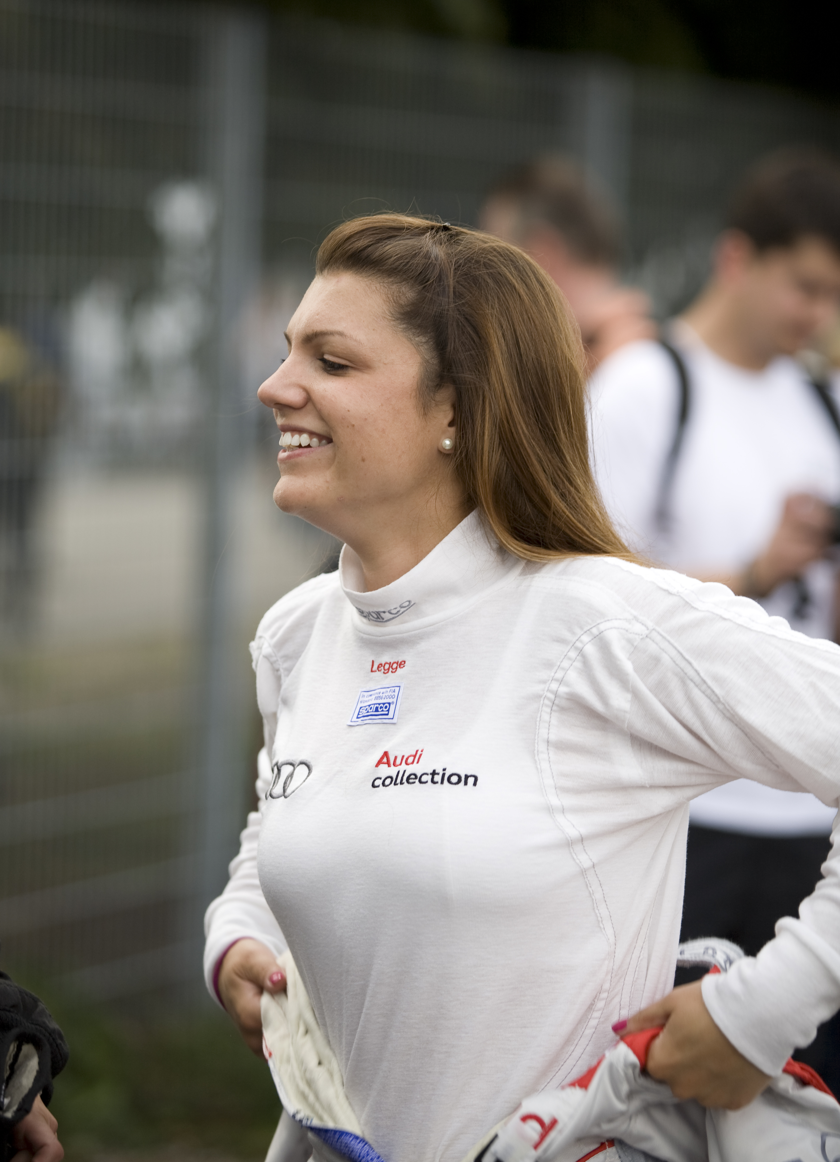 2009 DTM Season - Round of Norisring.